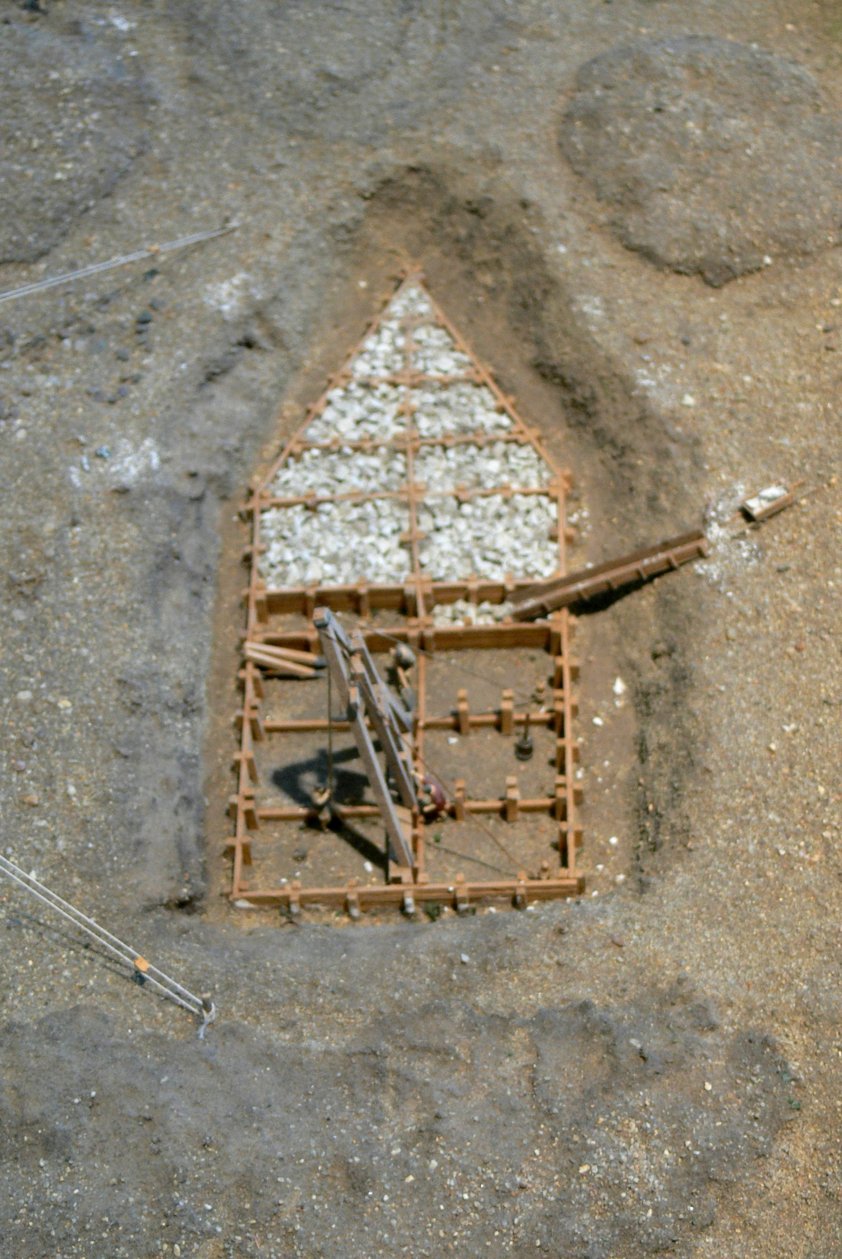 Celtic Museum Manching ( Bavaria ). Modell of the ancient Roman bridge ( 165 AD ) at Stepperg - Construction of the bridge